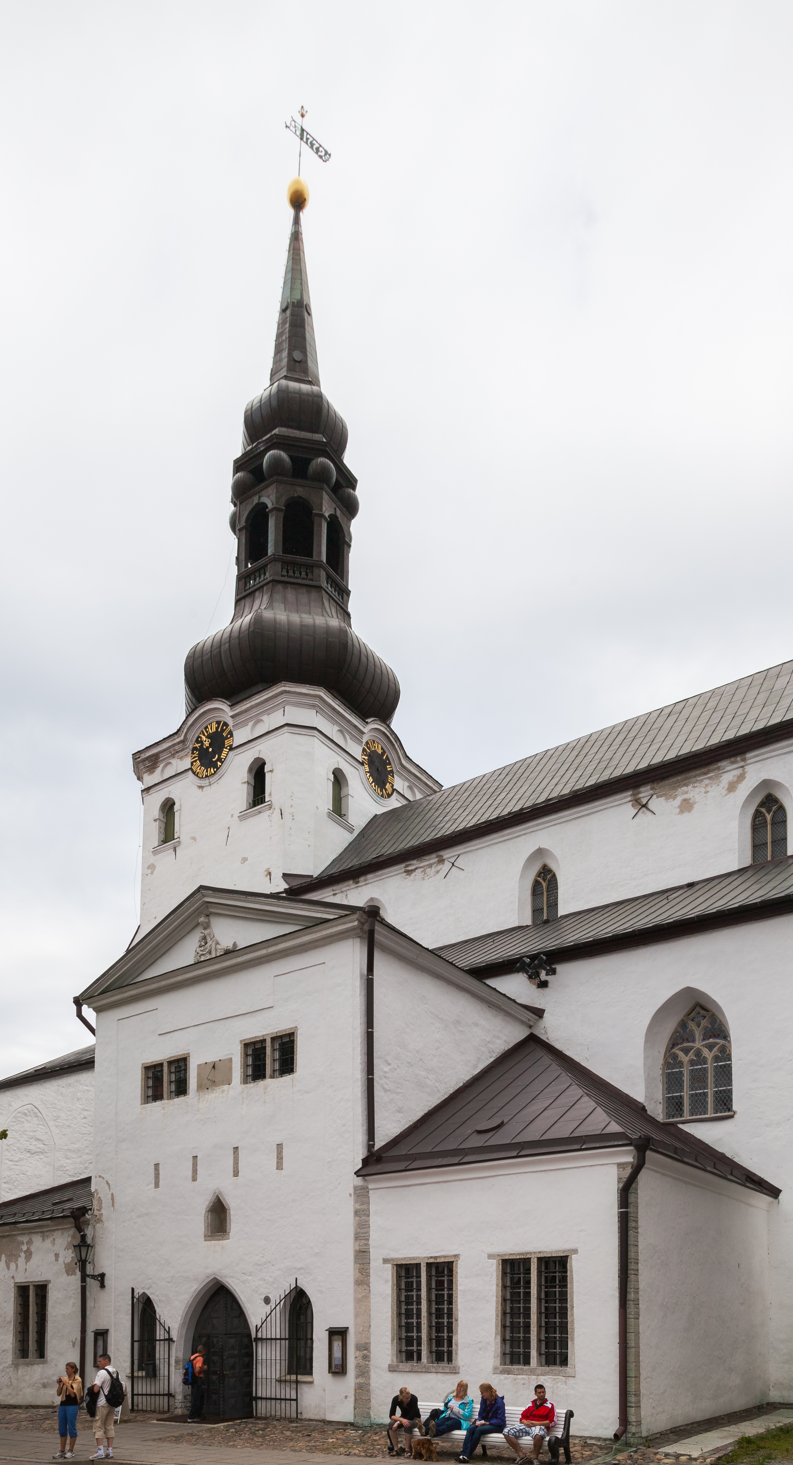 Cathedral of Saint Mary, Tallinn, Estonia